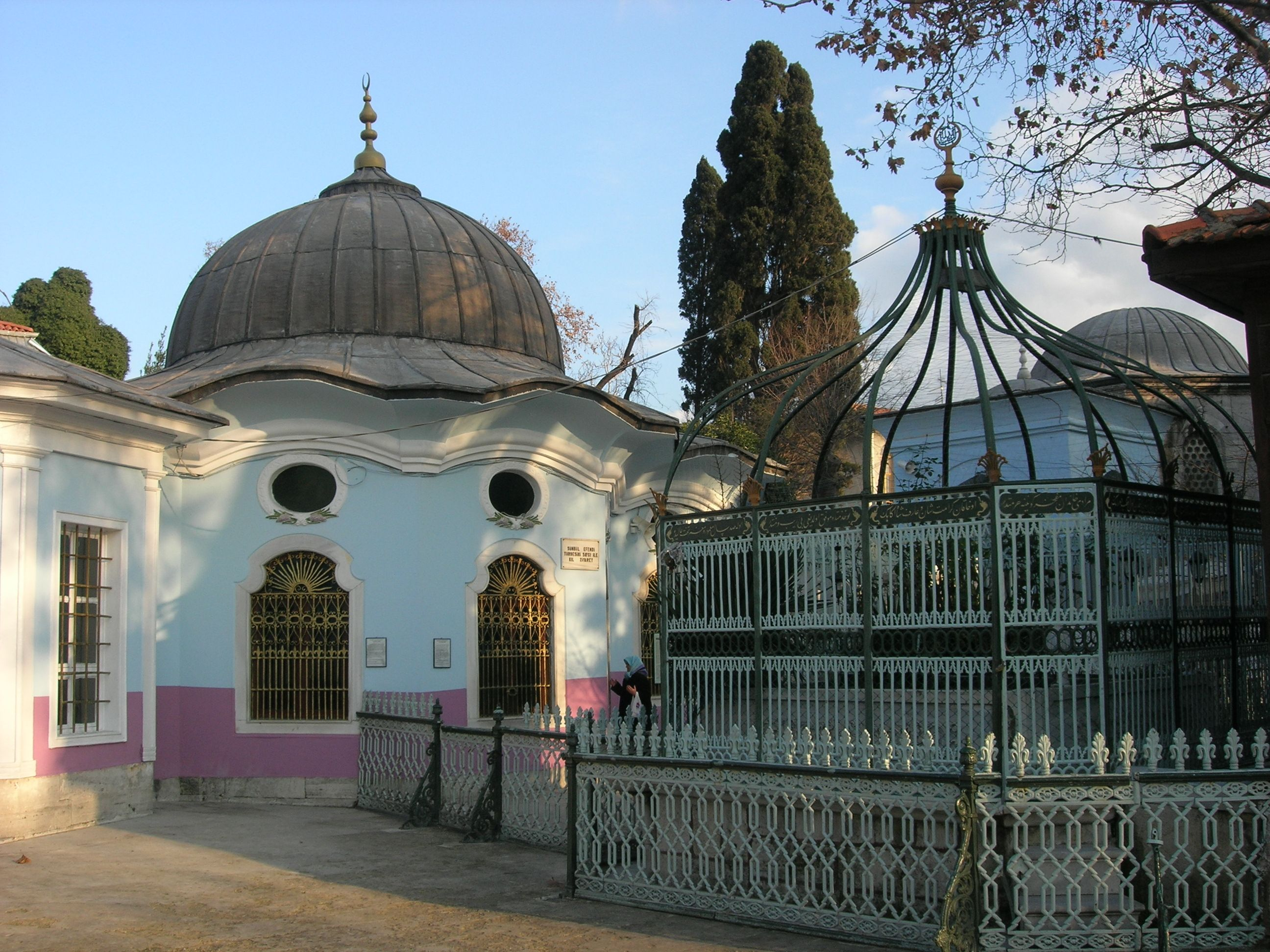 The Turbe of Sünbül Efendi (left) and of the Cifte Sultanlar (right), in the complex of the mosque of Koca Mustafa Pasha in Istanbul